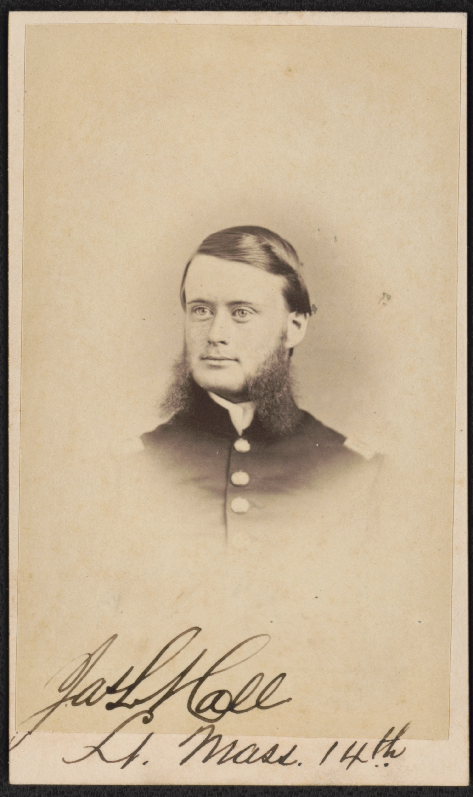 Title: Lieutenant James L. Hall of Co. L, 1st Massachusetts Heavy Artillery Regiment in uniform / R.W. Addis, photographer, 308 Penna. Avenue, Washington, D.C Abstract/medium: 1 photograph : albumen print on card mount ; mount 11 x 6 cm (carte de visite format)